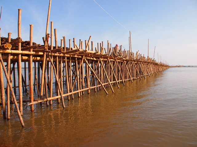 This bridge (between Kompong Cham and Koh Pan) is constructed each year by hand.